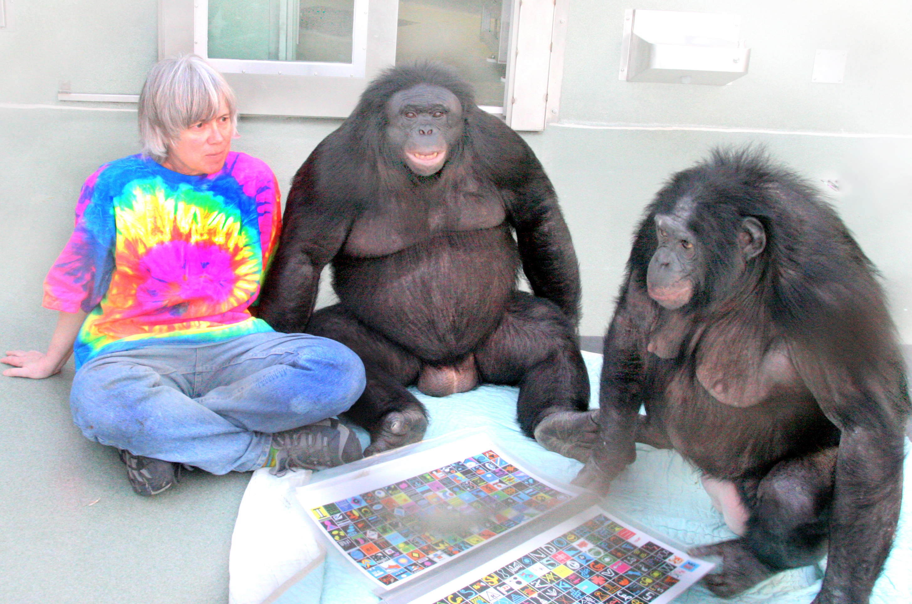 Sue Savage-Rumbaugh (L), Kanzi (C), and Panbanisha (R) with the portable "keyboard."